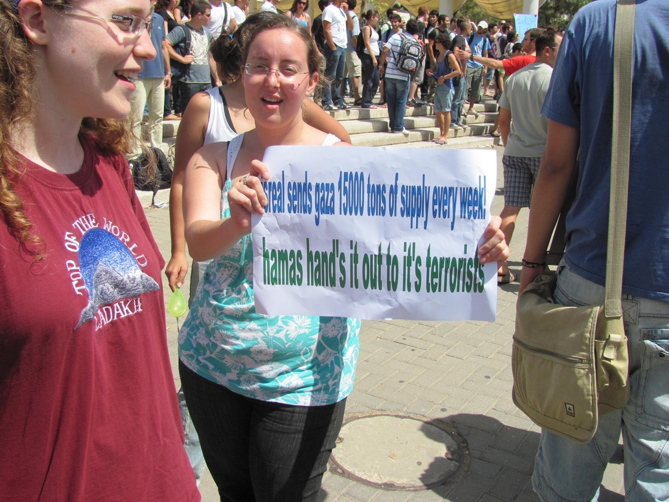 Tel Aviv university students support IDF and Israel against Gaza Flotilla.